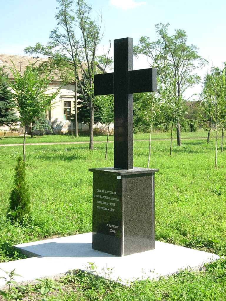 A cross at the centre of Dužine, Vojvodina, Serbia.